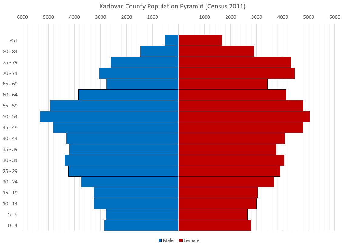 Population pyramid of Karlovac County. Version in English. Data from 2011 Census; available at